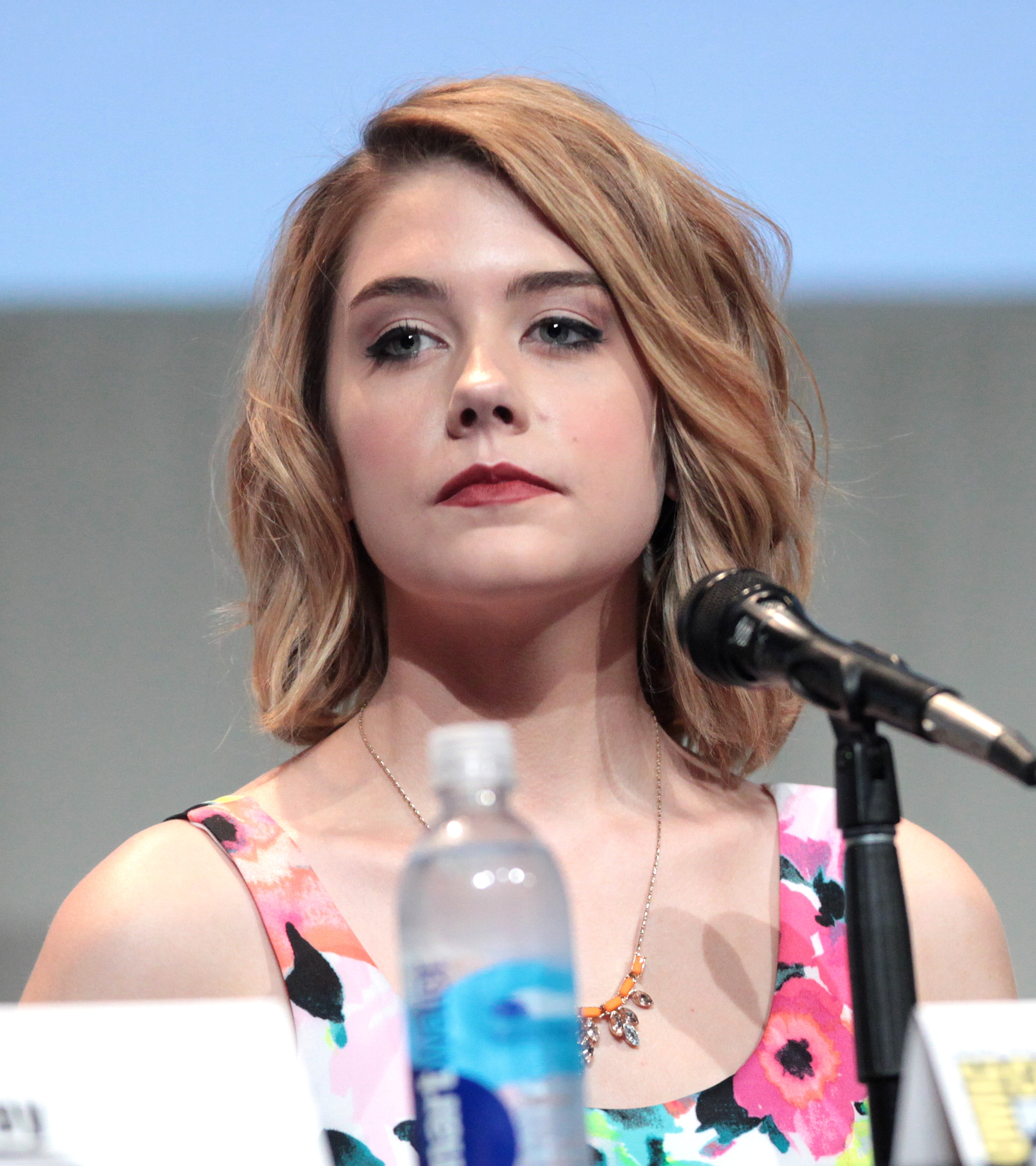 Gatlin Green at the 2015 San Diego Comic Con International in San Diego, California.